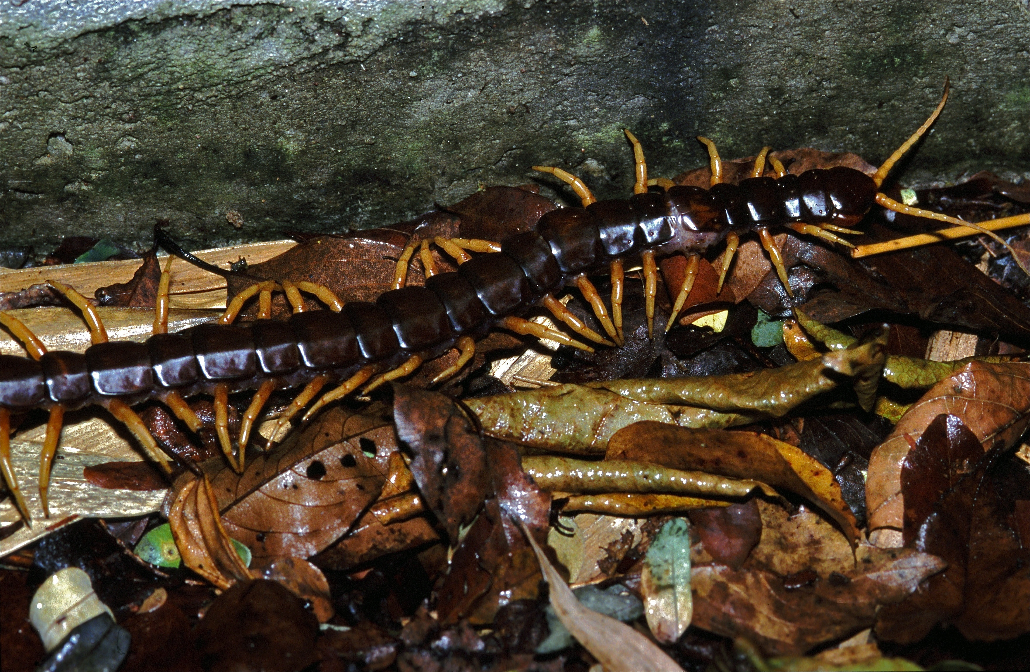 Khao Yai NP, THAILAND Scanned Slide from 2003